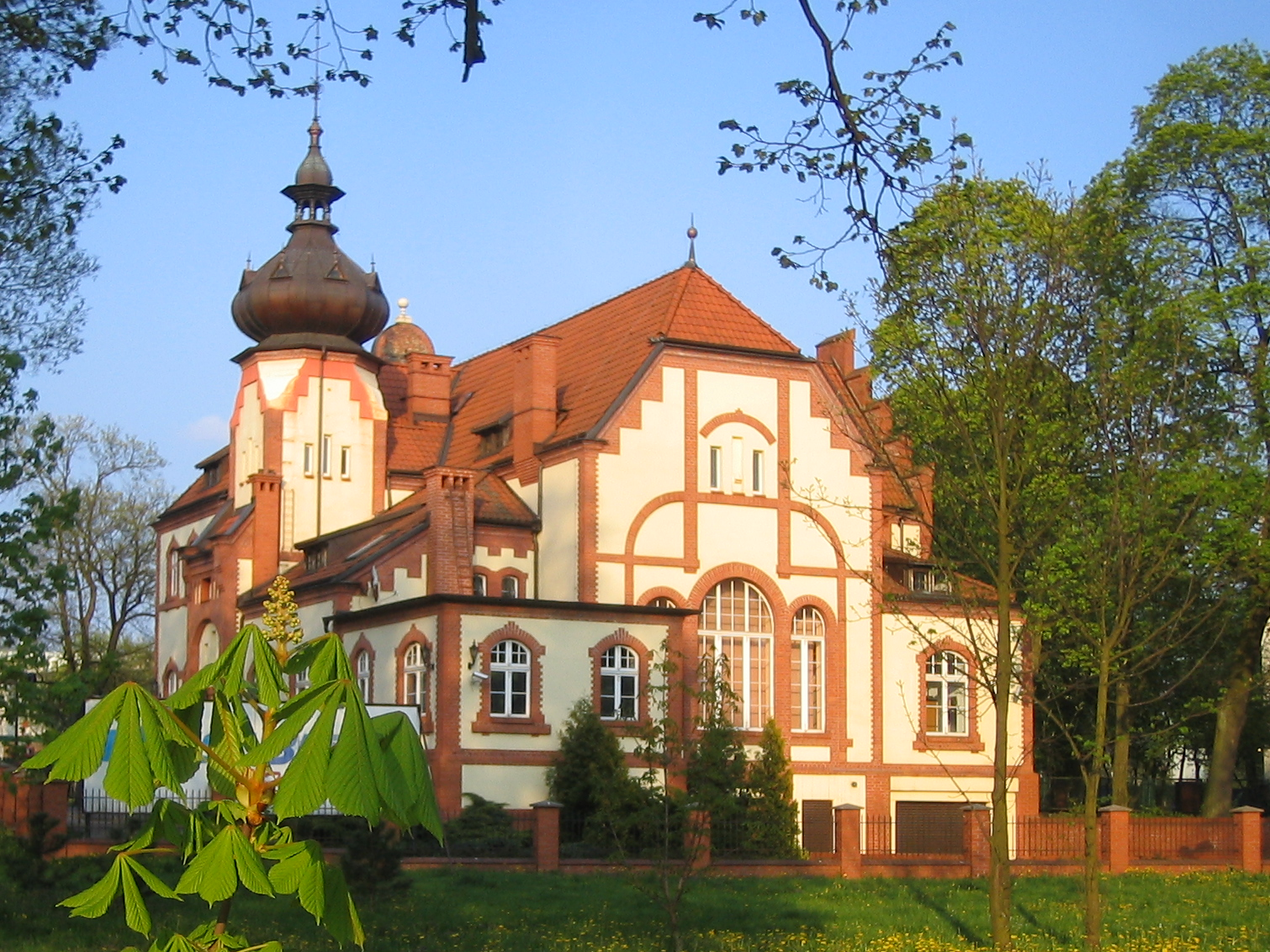 Former Casino in Piła, Poland (now bank)